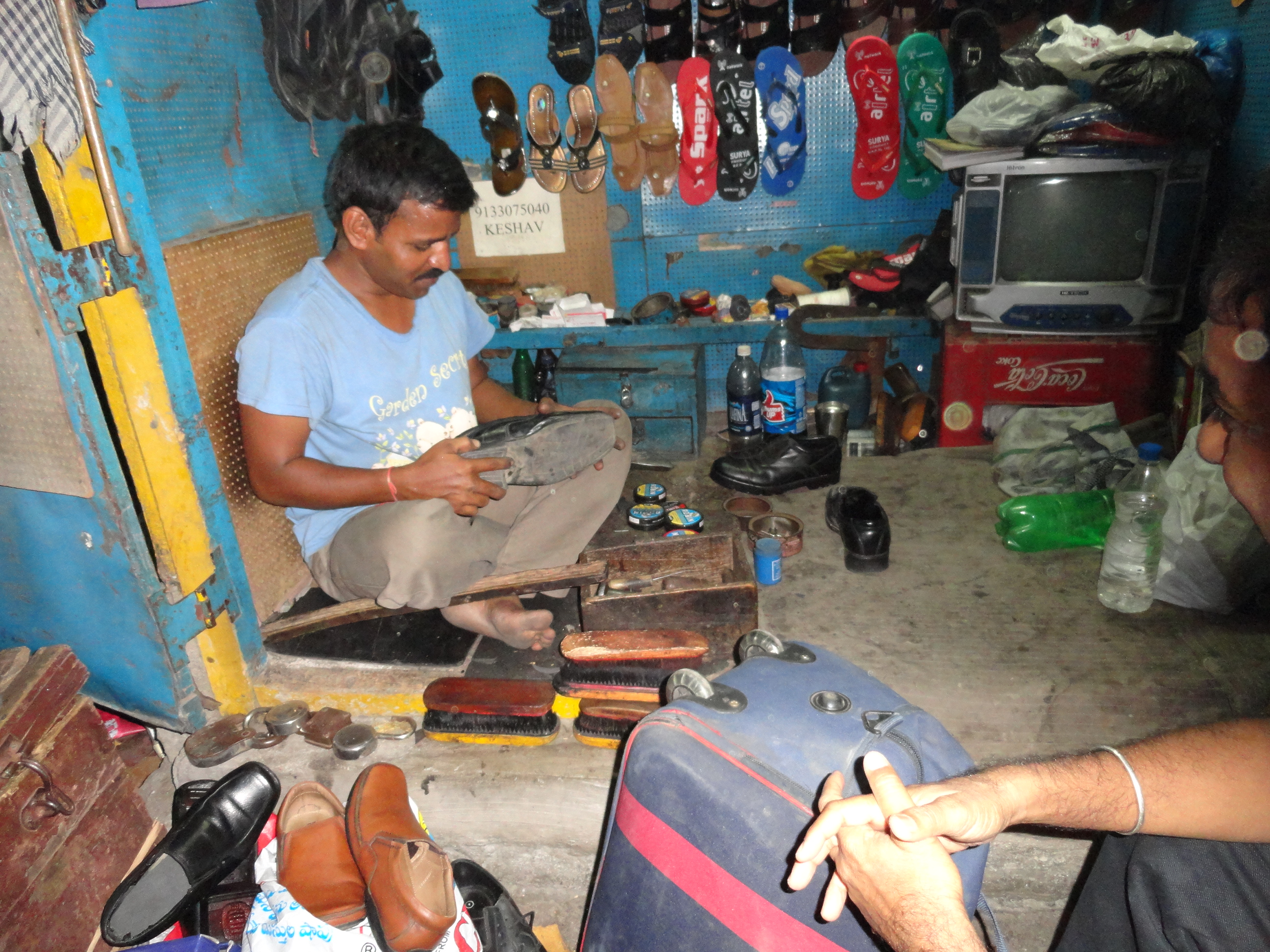 coblor at work in his shop: Gunfoundry Hyderabad.